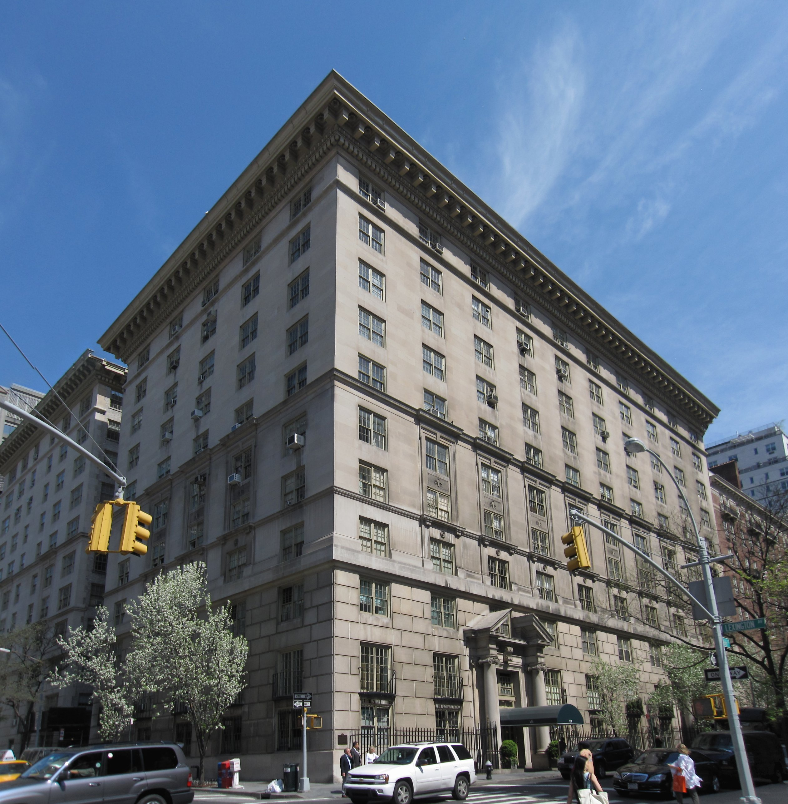 Studio Building on 131 East 66th Street, New York City.